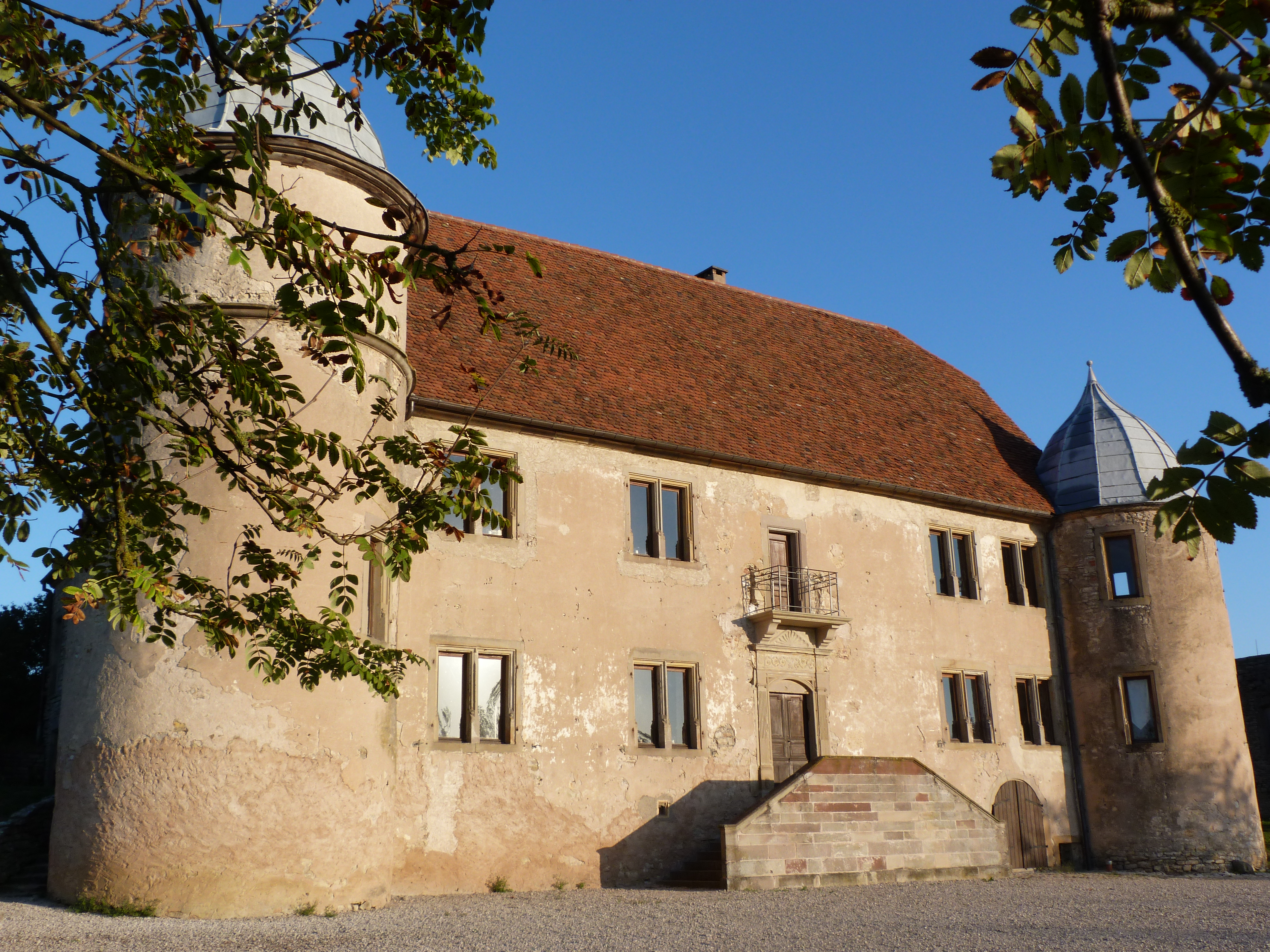 This building is indexed in the Base Mérimée, a database of architectural heritage maintained by the French Ministry of Culture, under the references PA00084691 and IA6700578 .